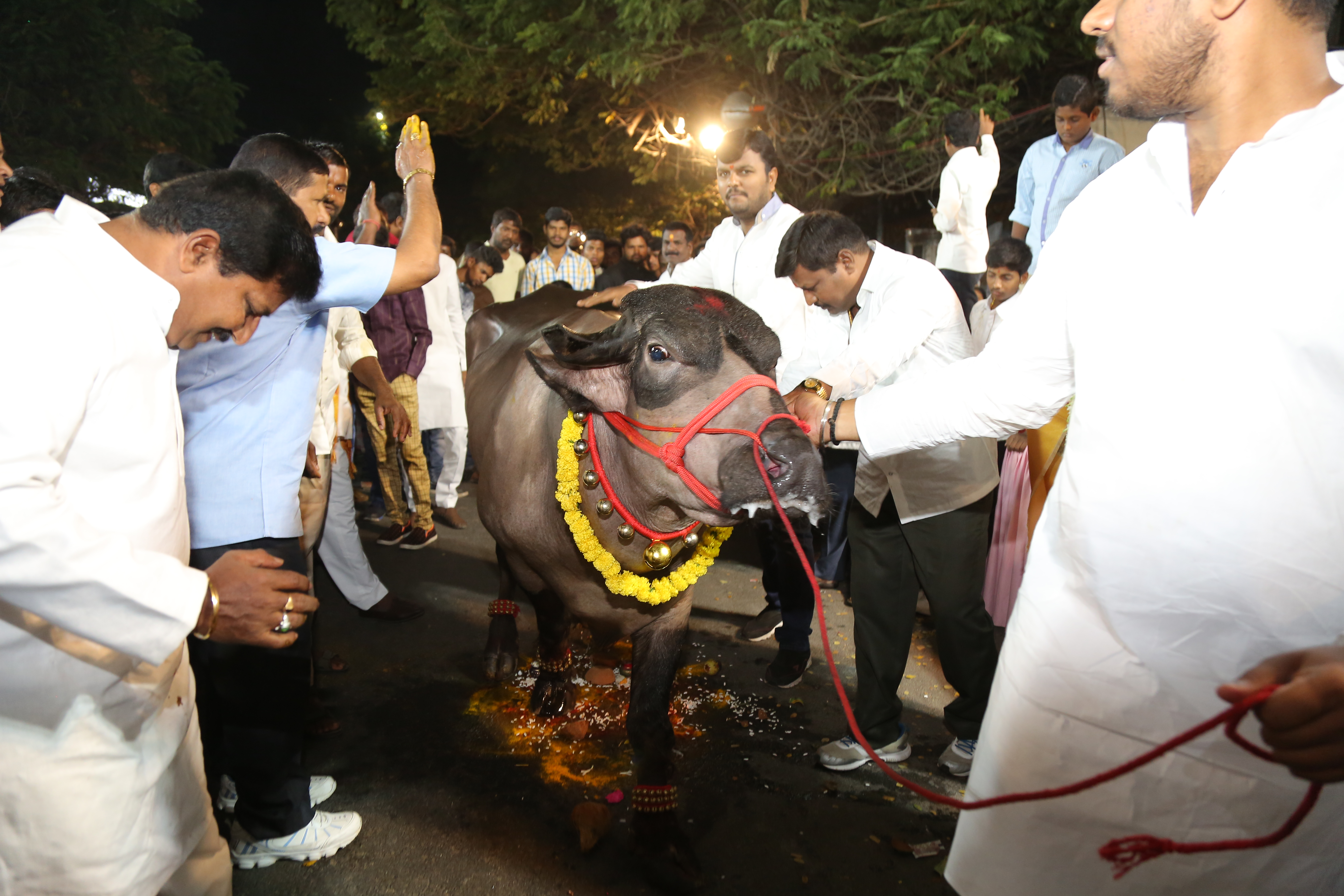 Buffalo Stomps Diya at Sadar